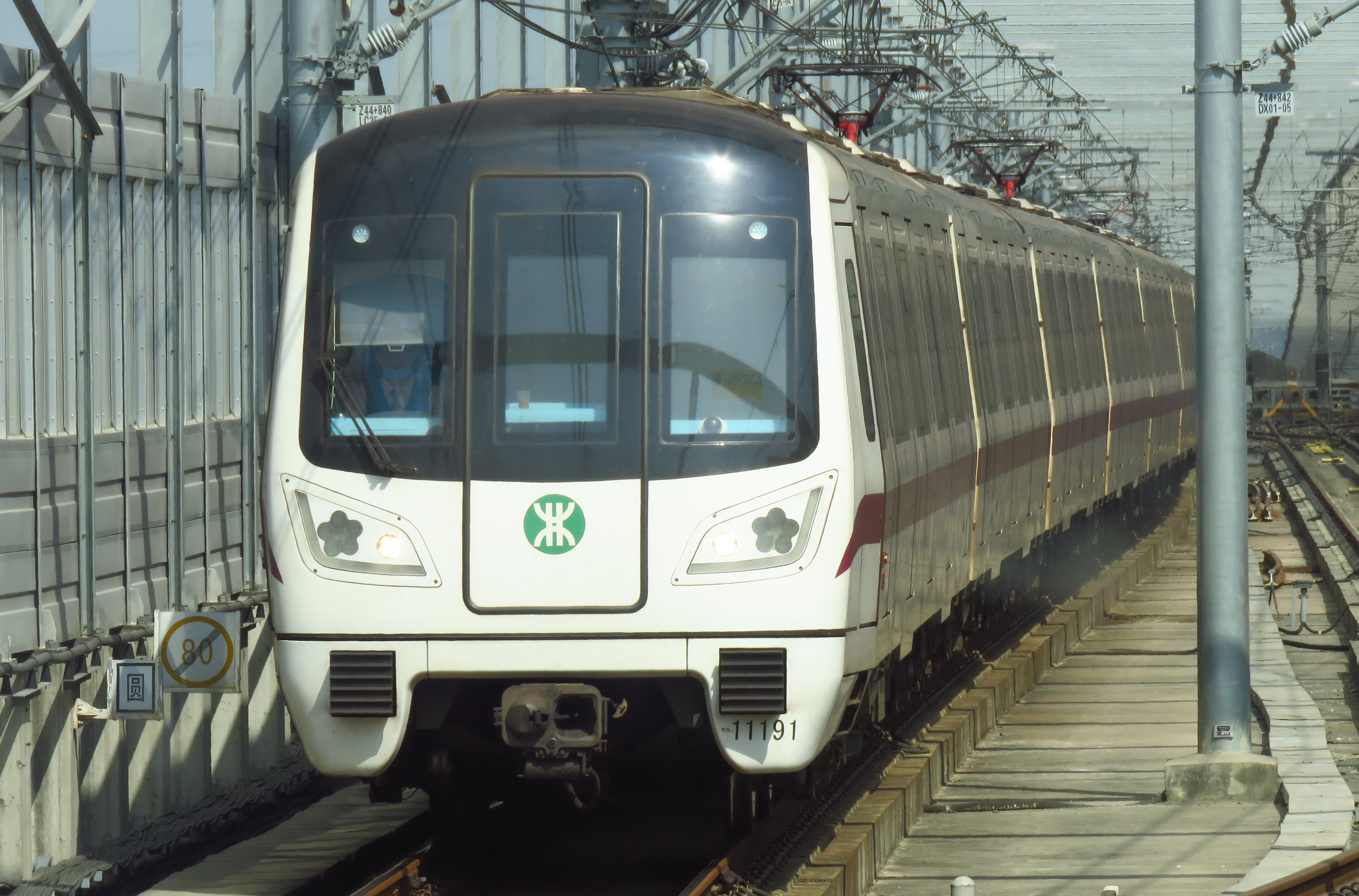 Shenzhen Metro Line 11 CRRC Zhuzhou A train approaching Shajing Station